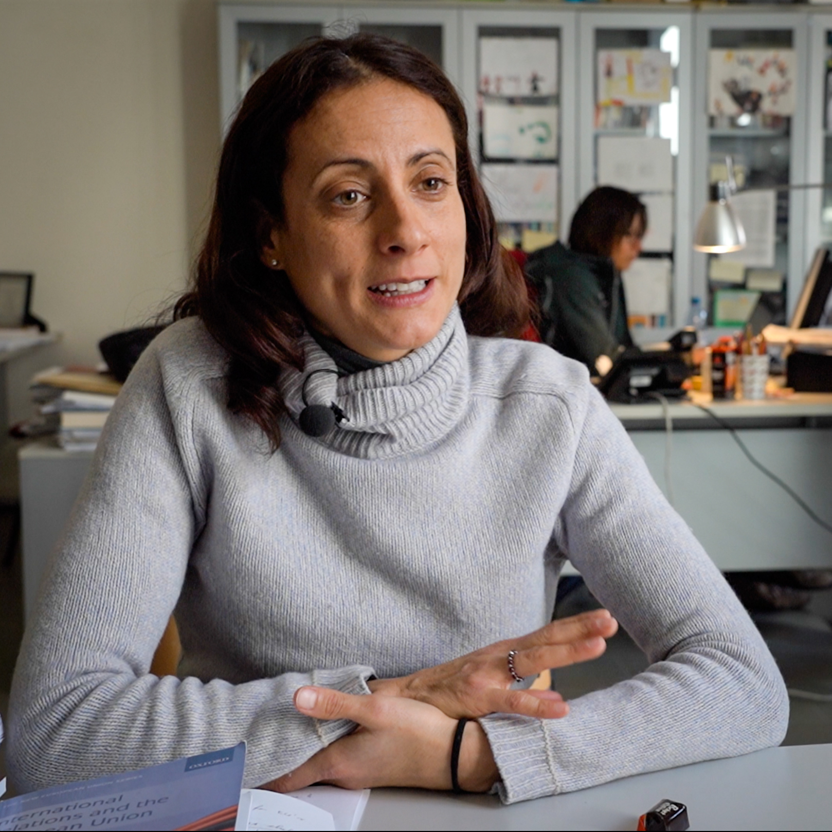 IAI Director Nathalie Tocci during an interview with Osservatorio Balcani e Caucaso Transeuropa.